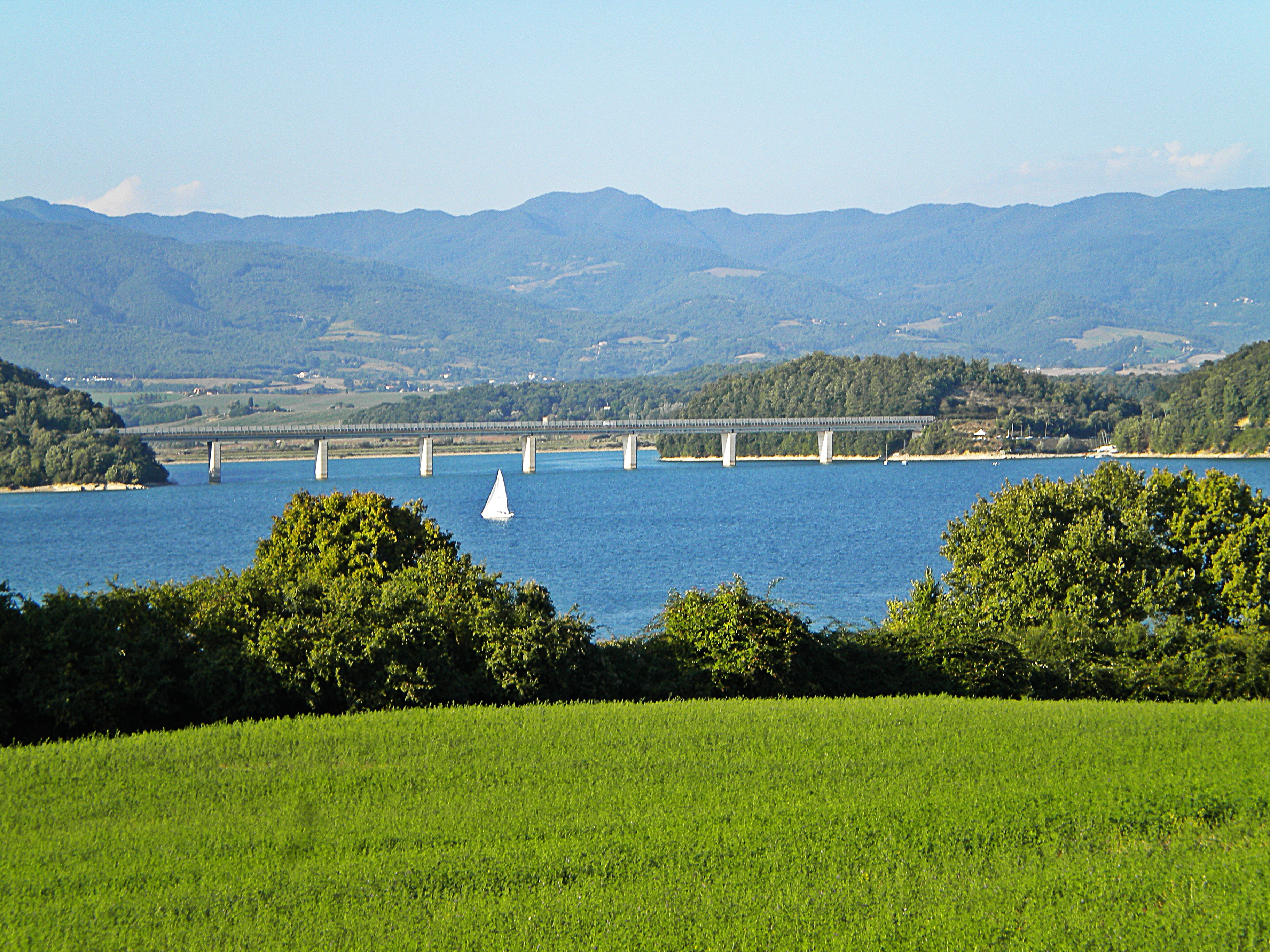 Bilancino dam